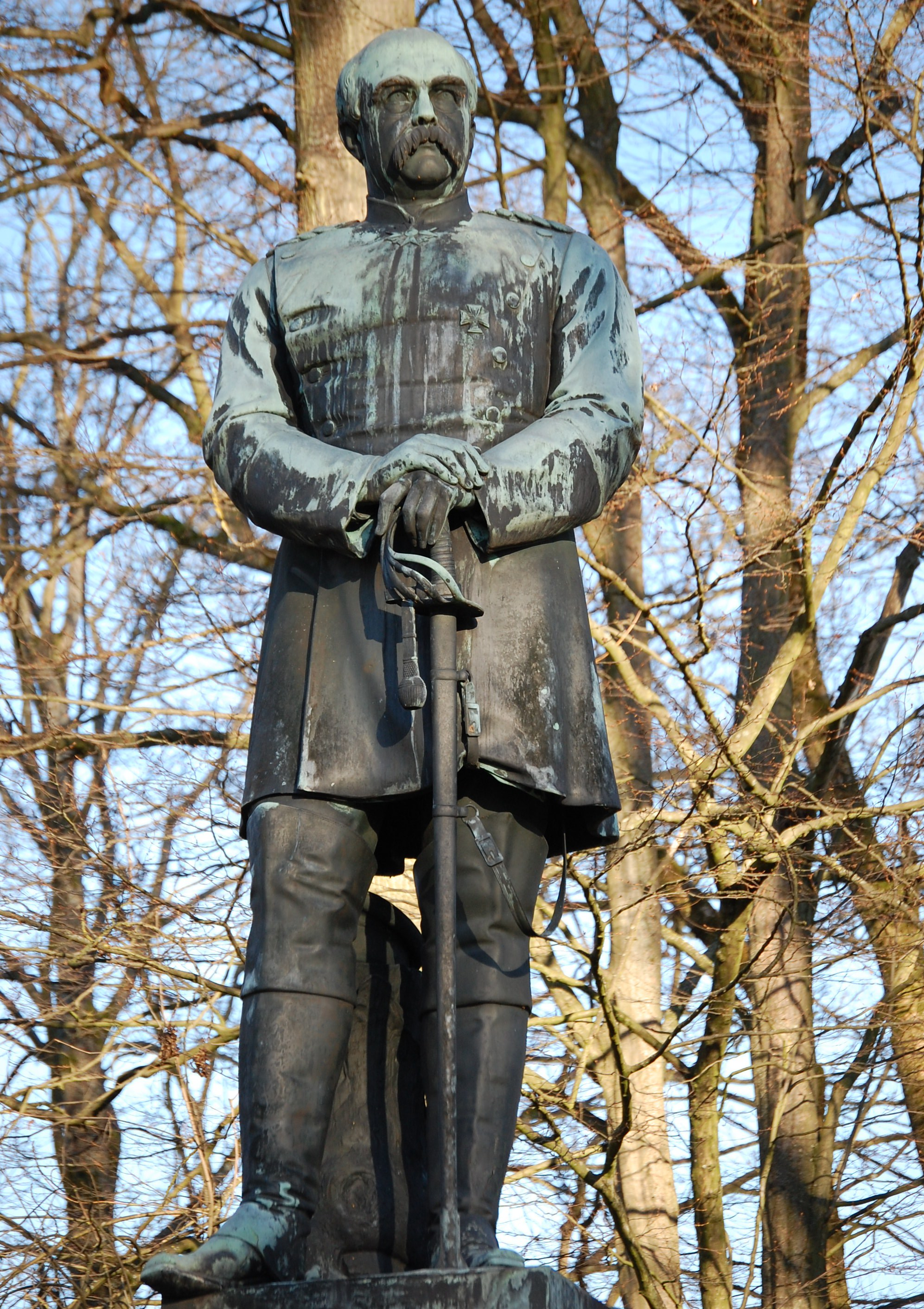 Statue of Otto von Bismarck, sculpted by Heinrich Manger, 1877 // Location: City of Bad Kissingen, Bavaria, Germany